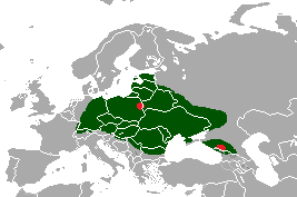 Historic range map of the European bison (Bison bonasus): Historic range in green, relict populations in the 20th century in red Historic range relict populations in the 20th century References: Kerley, G., I., H., Kowalczyk, R., Cromsigt, J., P., G., M. (2011). Conservation implications of the refugee species concept and the European bison: king of the forest or refugee in a marginal habitat. Ecography 34: 001–011